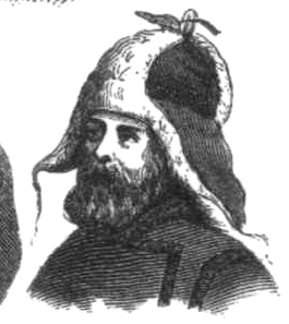 engraving of the Belorussian head covering, XIXth